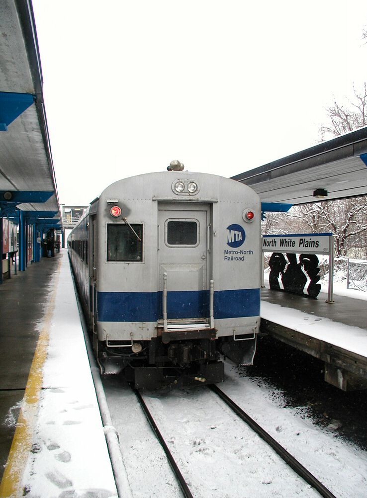 A Metro North Commuter Railroad 1100 series ACMU at North White Plains in the winter of 2004.